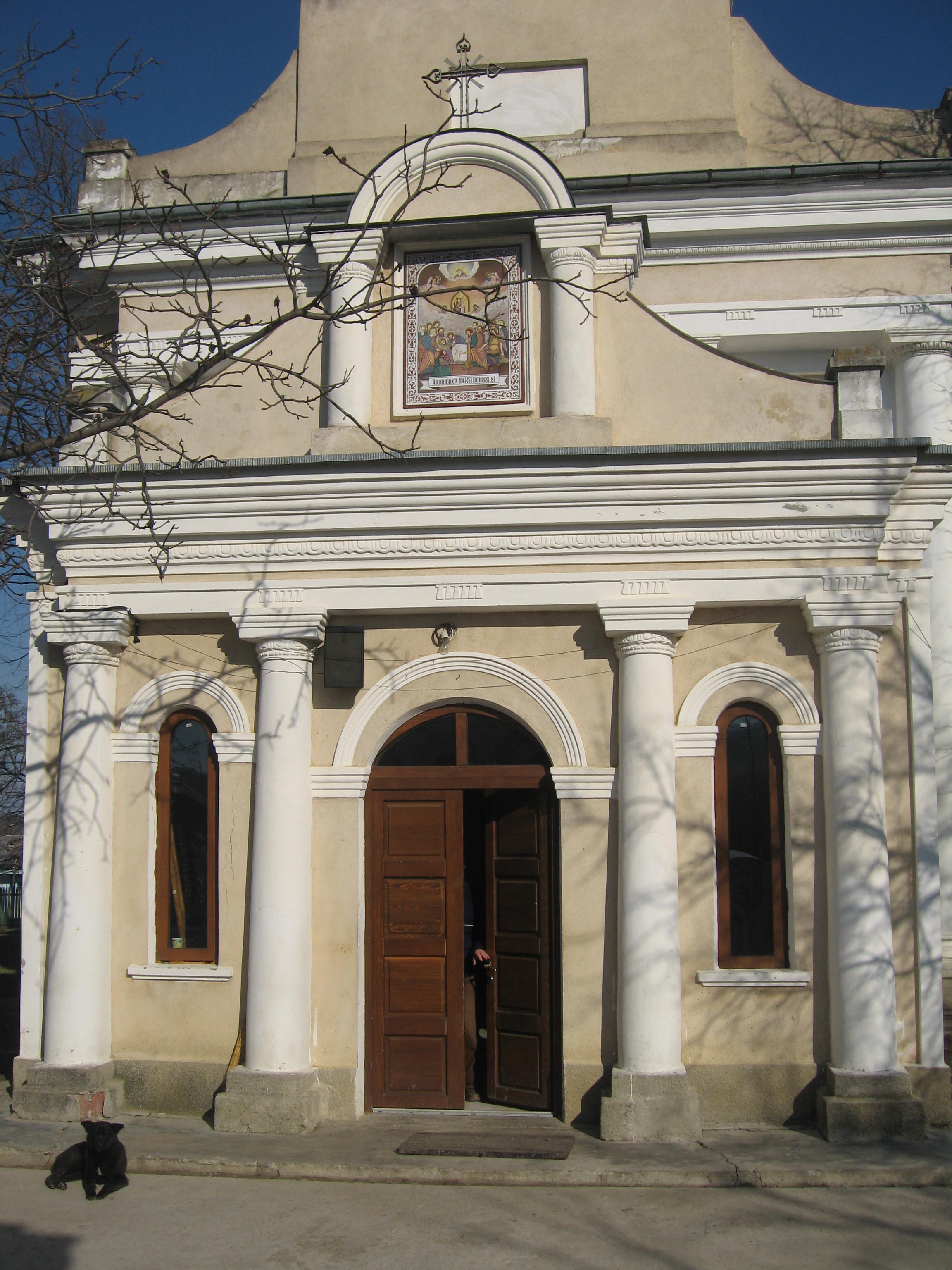 Biserica Adormirea Maicii Domnului din Voinesti